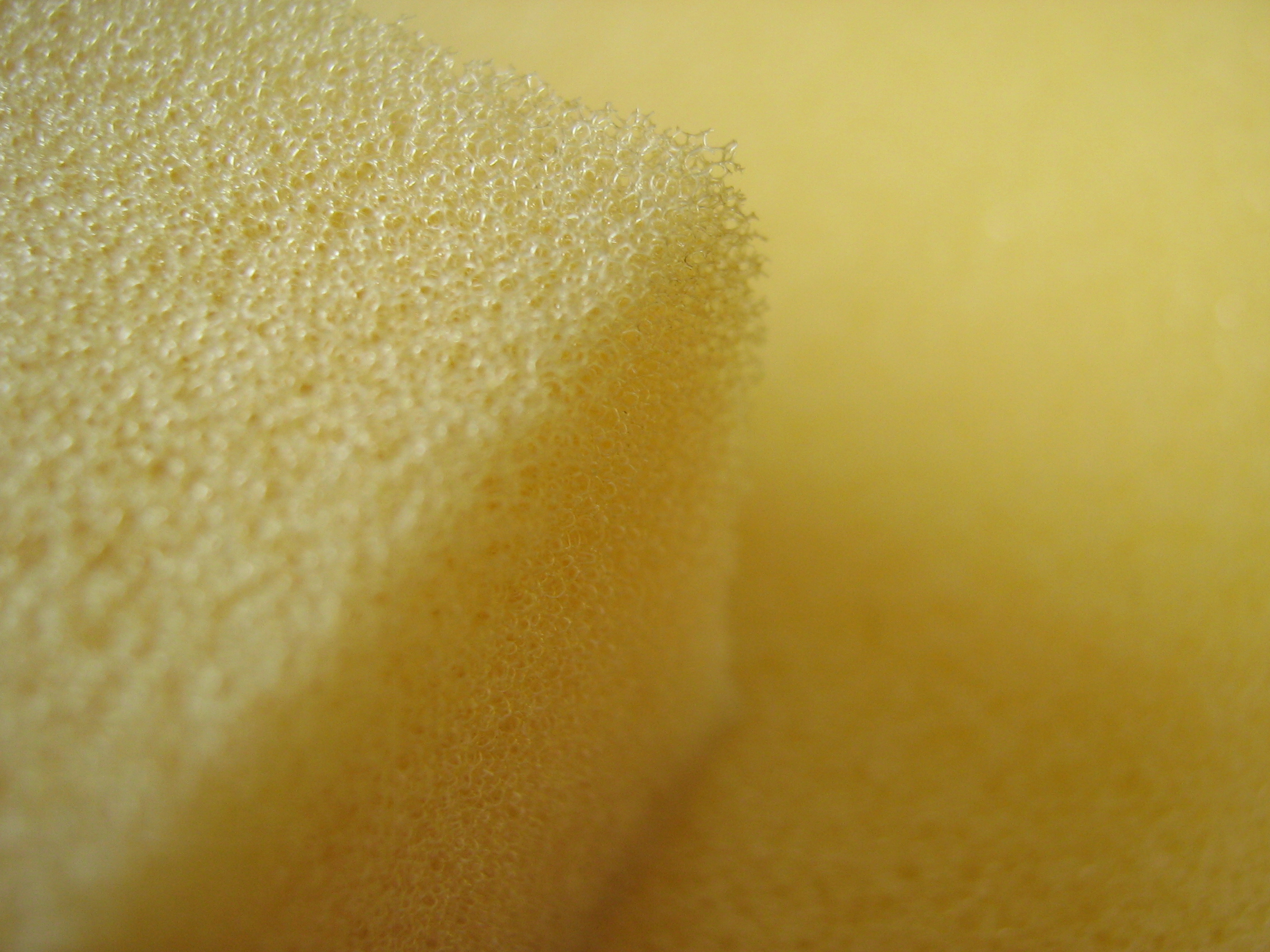 Polyether foam, with a thickness of 2 cm